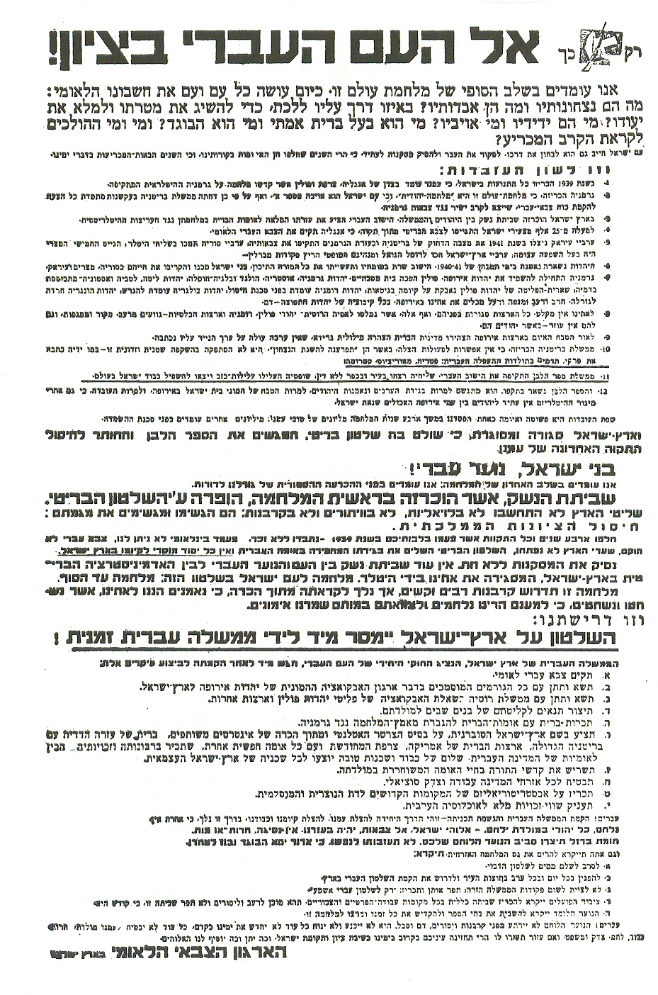 "Proclamation of Revolt" of the Irgun Zvai Leumi